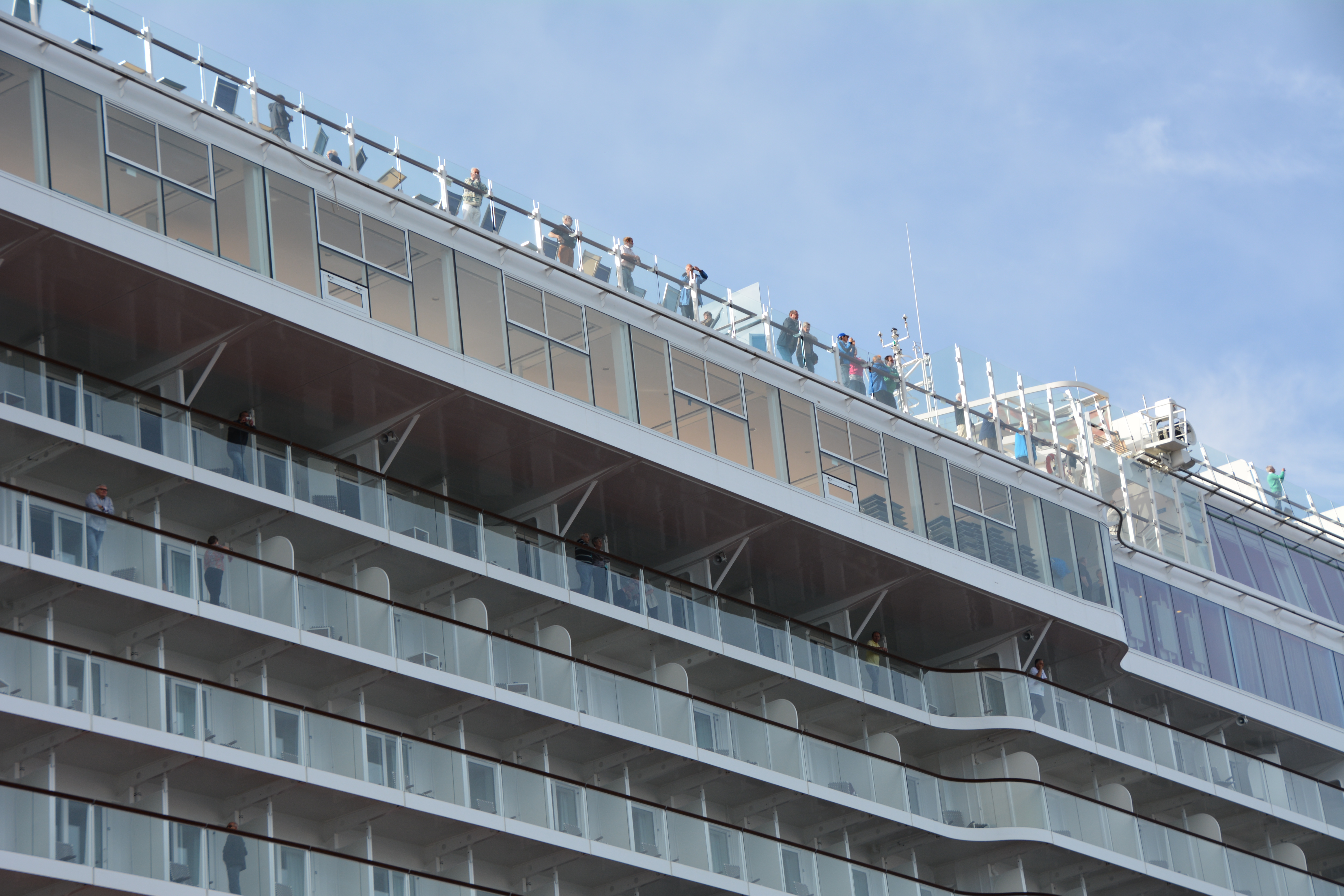 Cruise passengers at Mein Schiff 4 in Stockholm 2015